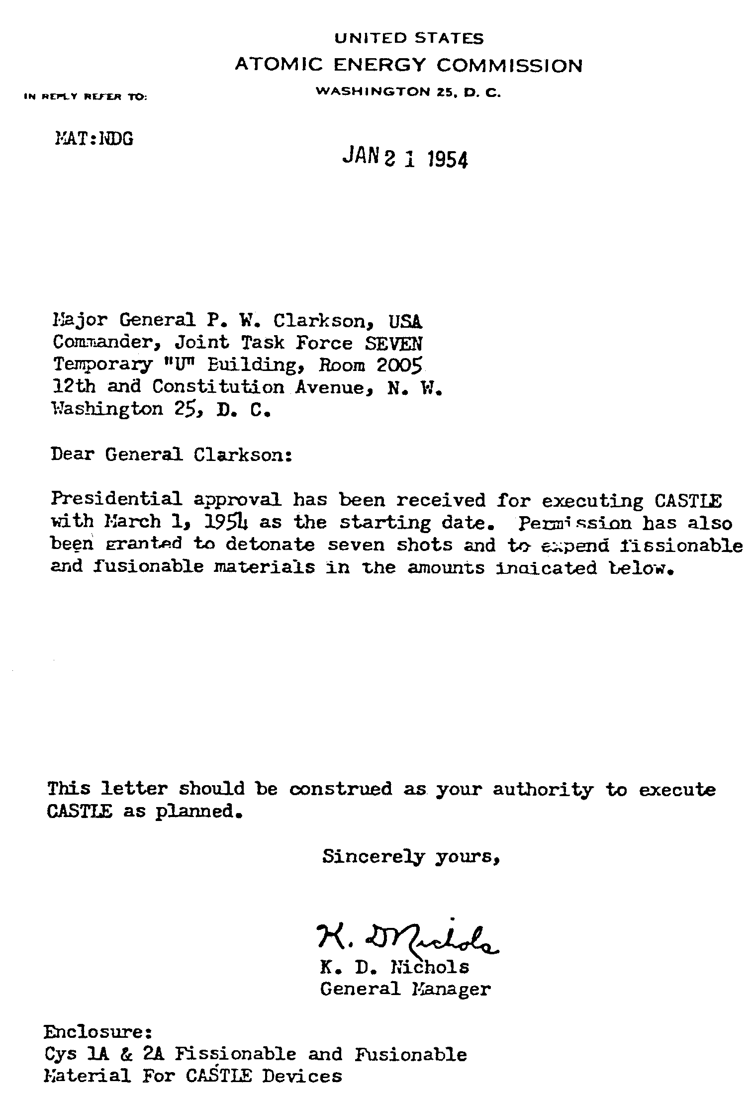 The United States Department of Defense, Defense Nuclear Agency (1982). Castle Series. Washington D.C.: United States Government Printing Office. (DNA 0635F) Cover letter. The letter text: “ IN REPLY REFER TO: MAT:NDG UNITED STATES ATOMIC ENERGY COMMISSION WASHINGTON 25, D. C. JAN 21 1954 Major General P. W. Clarkson, USA Commander, Joint Task Force SEVEN Temporary "U" Building, Room 2005 12th and Constitution Avenue, N. W. Washington 25, D. C. Dear General Clarkson: Presidential approval has been received for executing CASTLE with March 1, 1954 as the starting date. Permission has also been granted to detonate seven shots and to expend fissionable and fusionable materials in the amounts indicated below. This letter should be construed as your authority to execute CASTLE as planned. Sincerely yours, K. D. Nichols General Manager Enclosure: Cys 1A & 2A Fissionable and Fusionable Material For CASTLE Devices ”